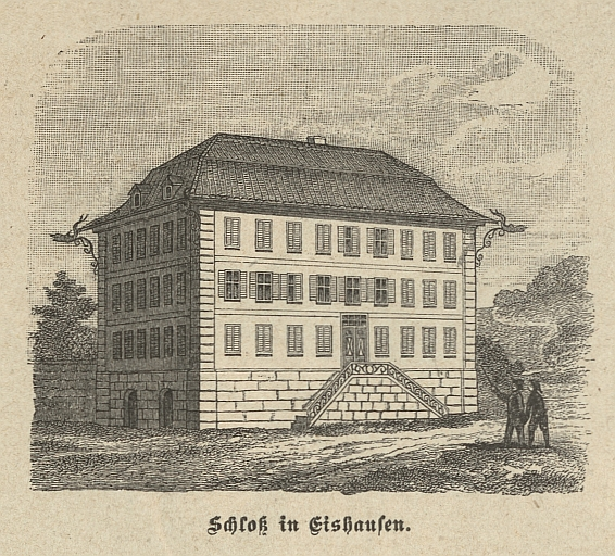 Image from page 270 of journal Die Gartenlaube, 1886.